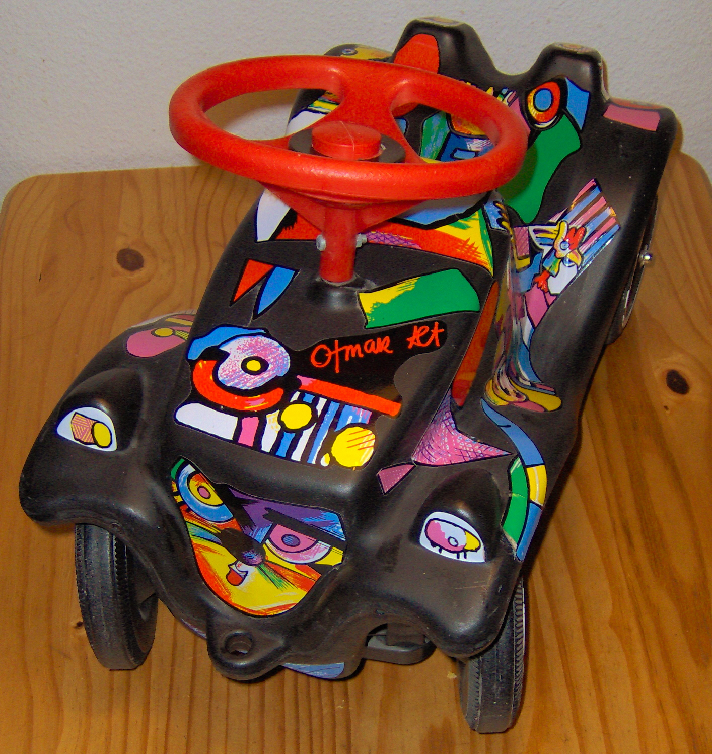 BIG Bobby Car Art-Collection Otmar Alt